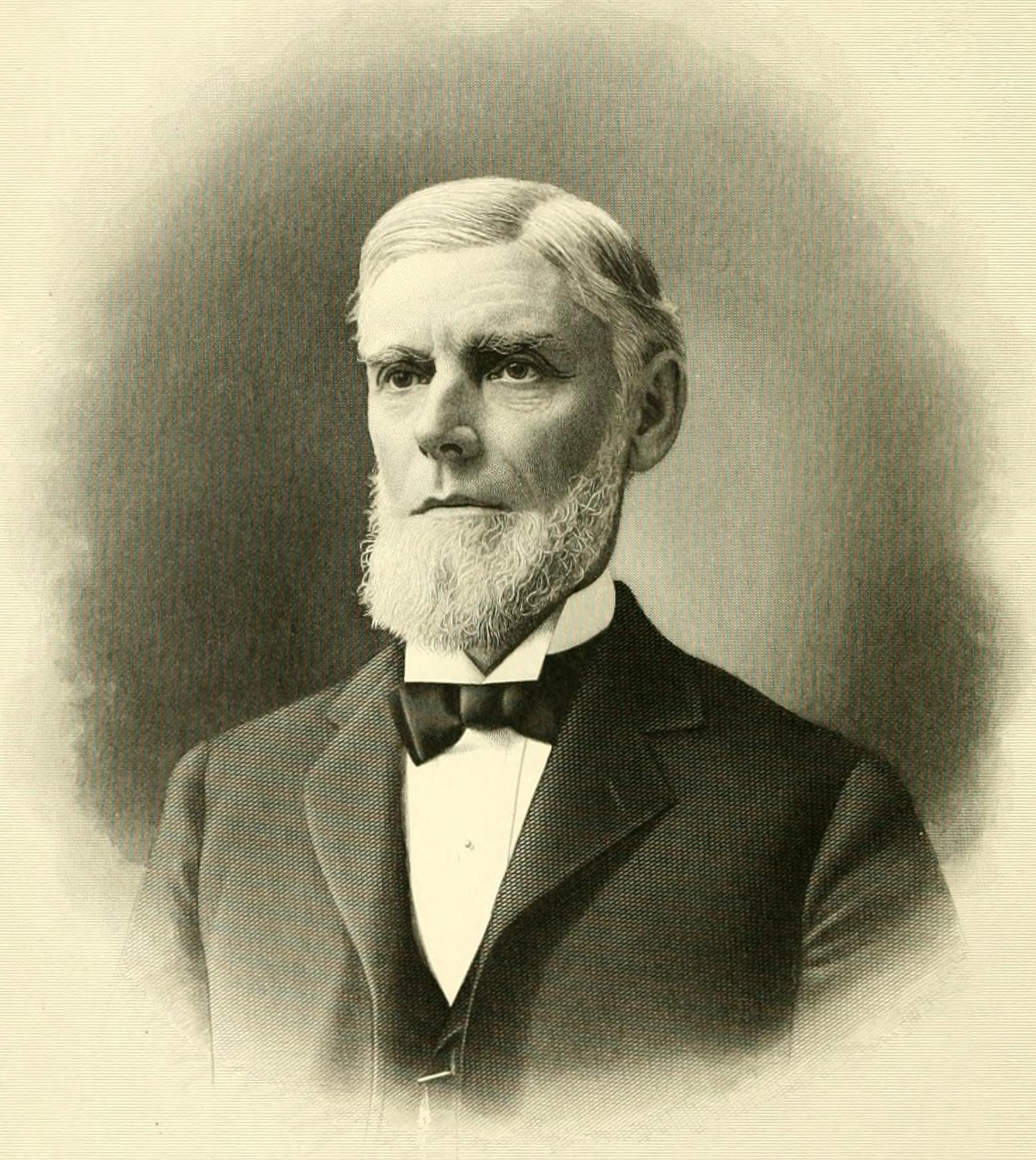 Engraving of William Mitchell.